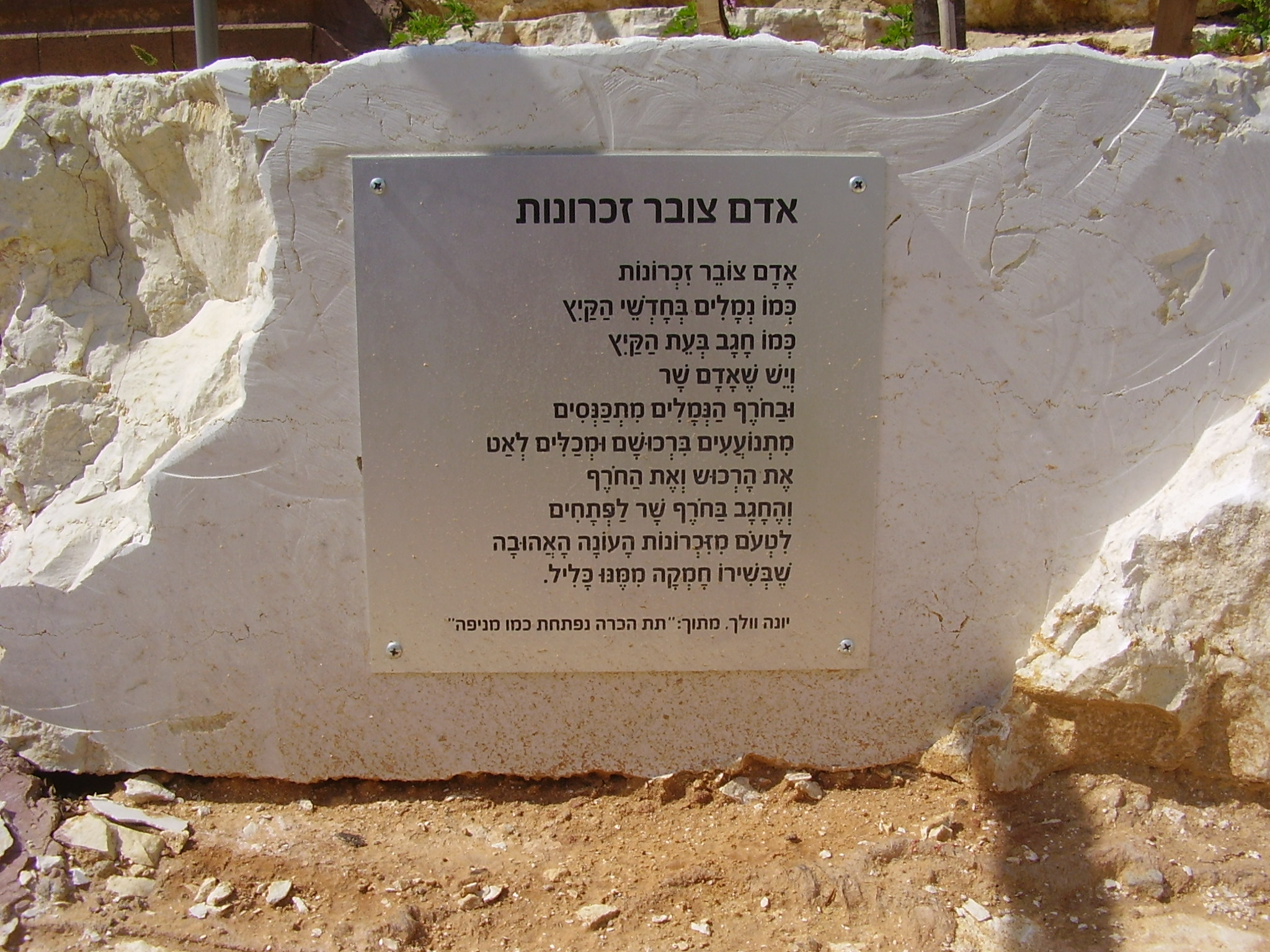 yona wallach poetry in yona wallach garden in kiryat ono